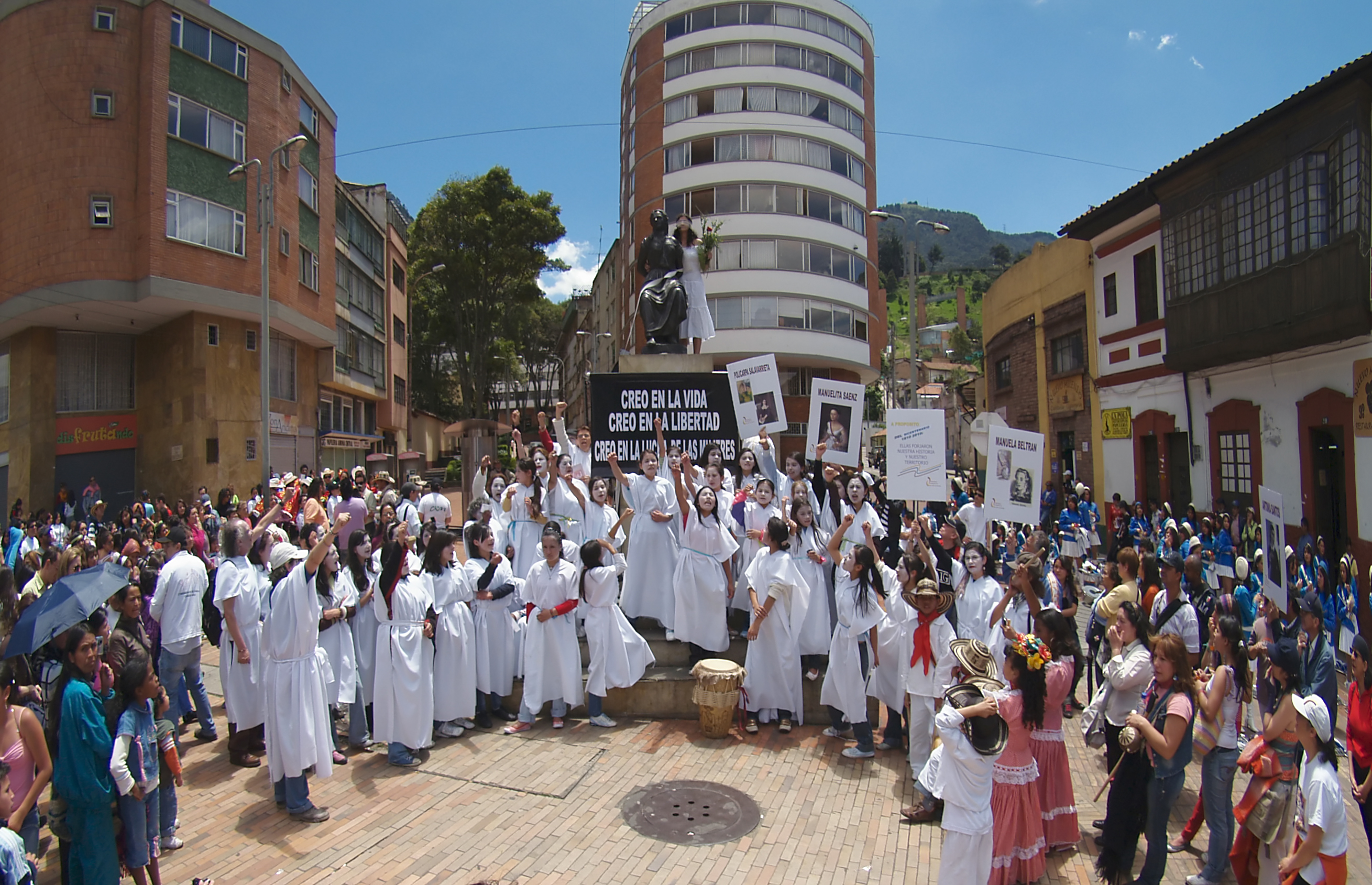 International Women's Day 2009 in Bogotá (Colombia).